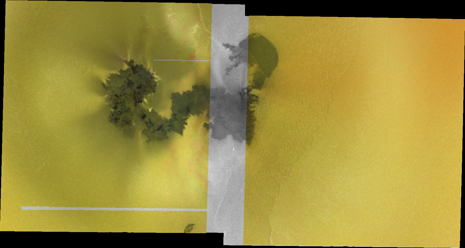 Mosaic of Galileo images of Prometheus, a volcano on Jupiter's moon Io 27ISPROMTH02 Image Time: 2000-02-22 14:29:47.739 Resolution: 183 m/pixel Center Latitude: 1.5 South Center Longitude: 154 West Filters Used: IR-7560, Green, Violet